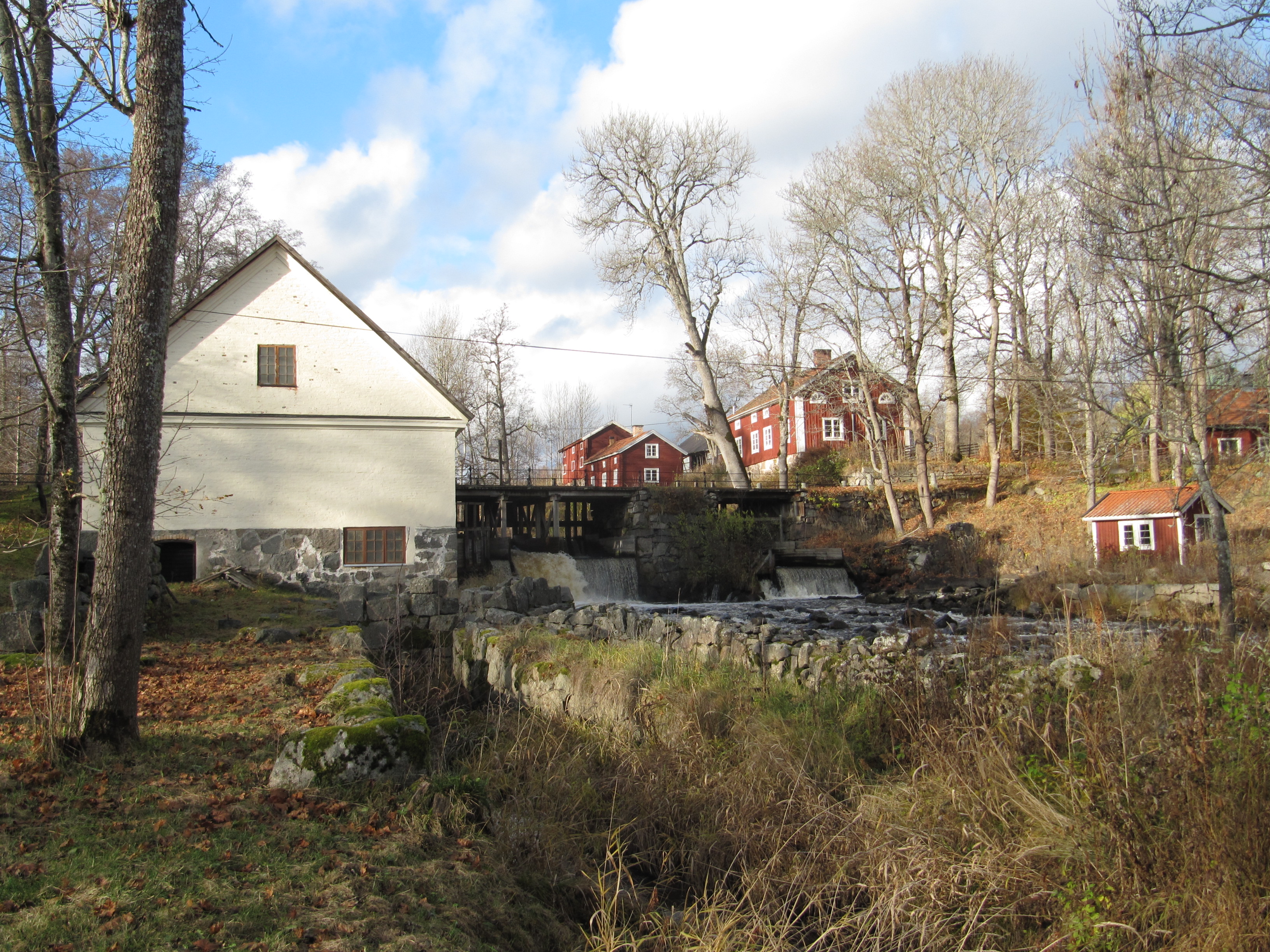 The little village Järle outside Nora, Sweden